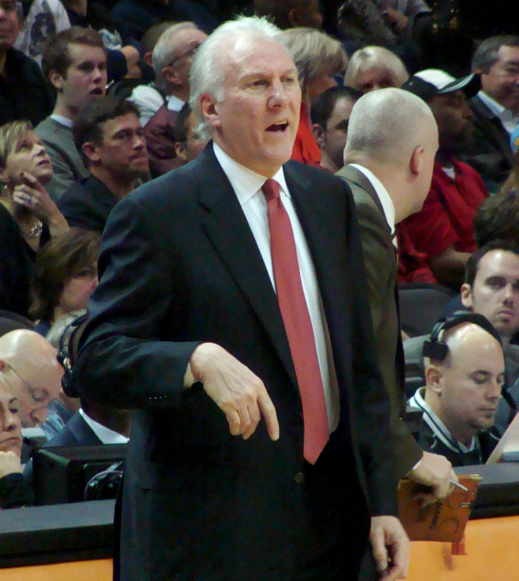 Gregg Popovich, head coach of the San Antonio Spurs, telling the ref: "Yeah, well you can suck this, you pea brain!" Photo taken during game against the Denver Nuggets, Dec 22, 2010.